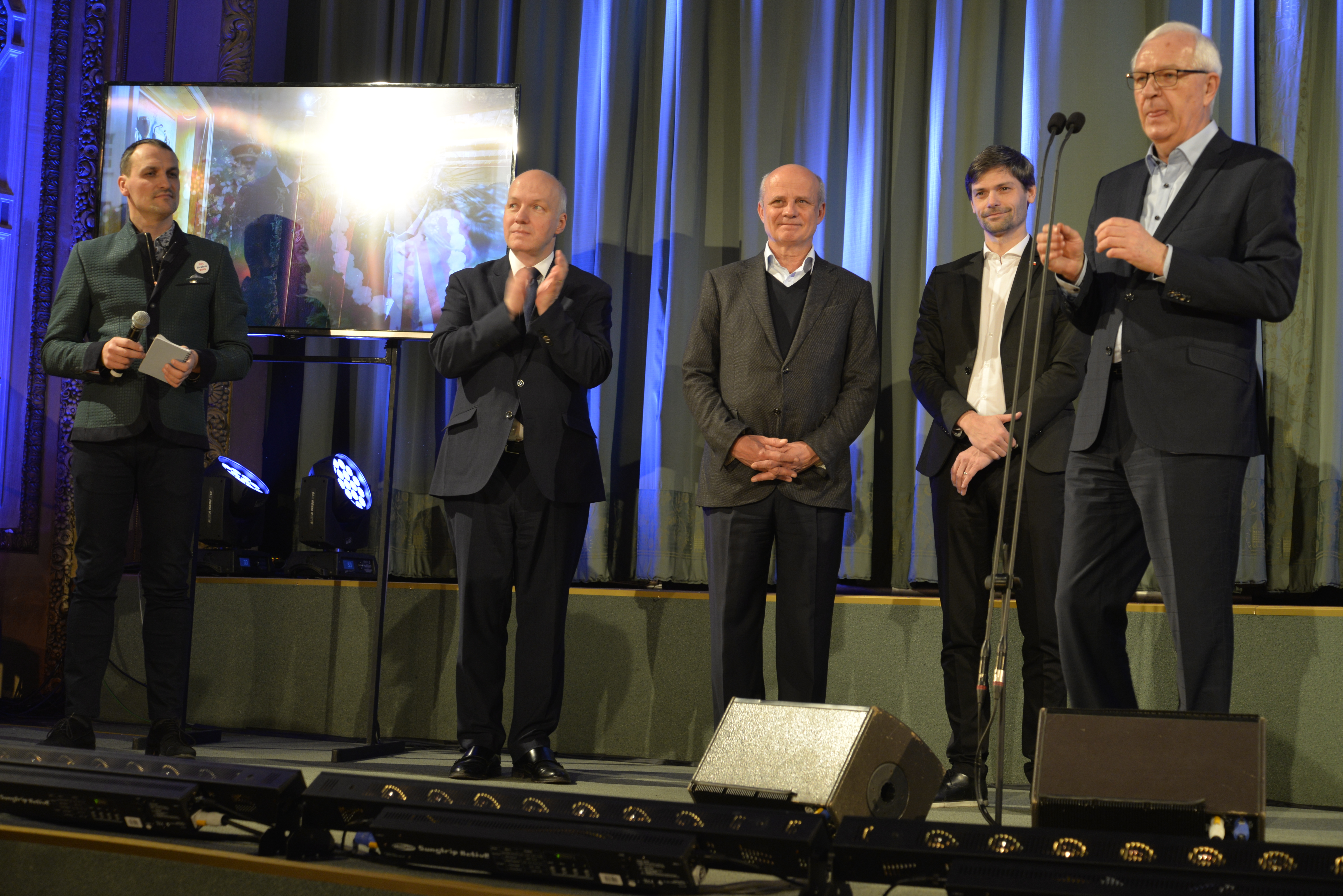 Jiří Drahoš during pre-election meeting in Lucerna cinema